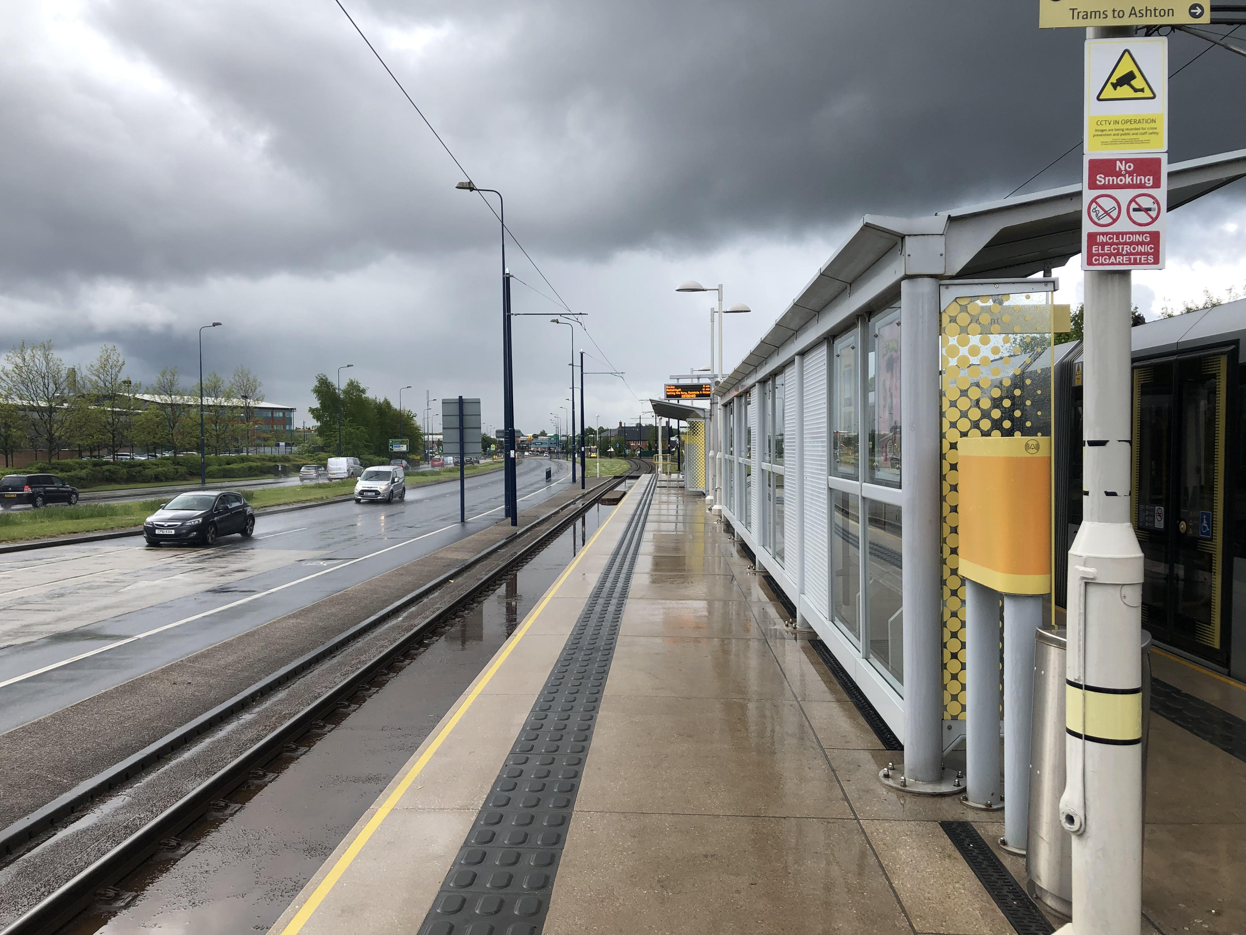 AshtonMoss tram stop in 2019